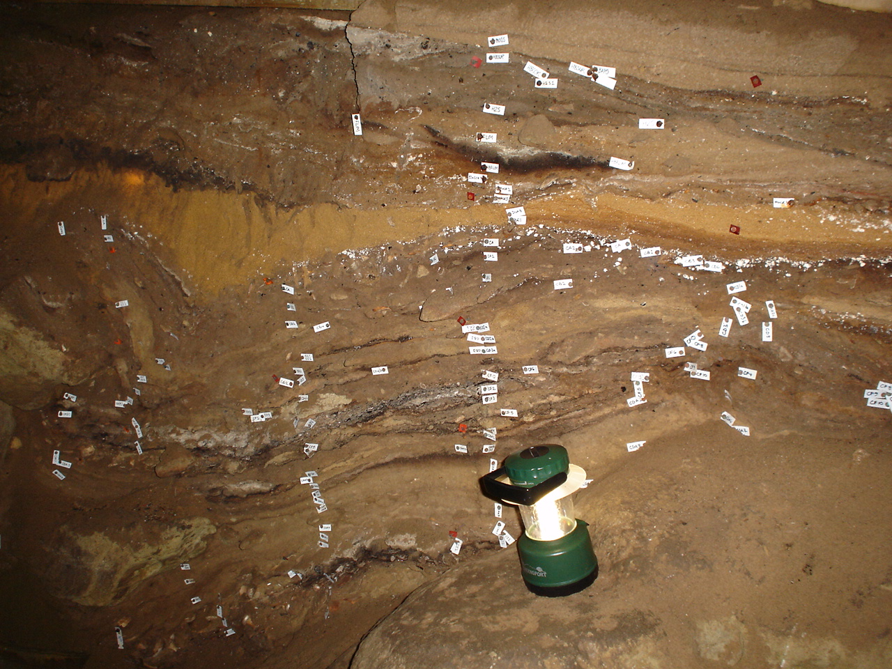 Deposit layers at Blombos Cave, South Africa